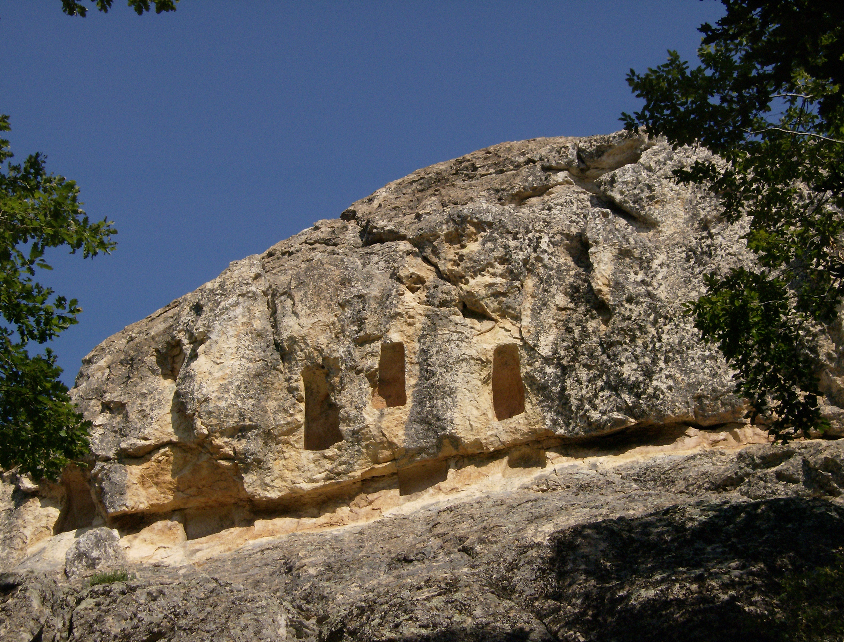 Gluhite kamani